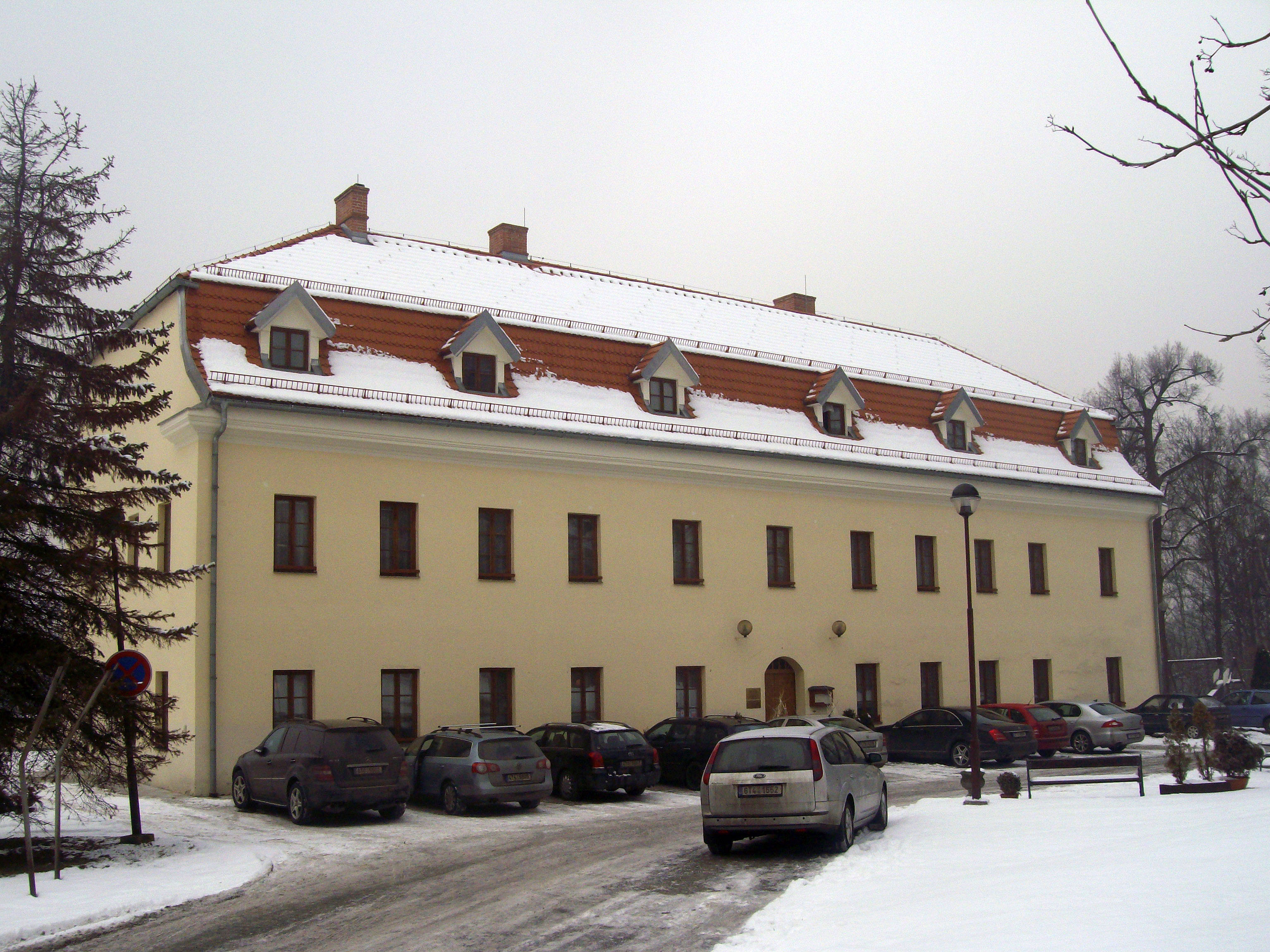 Havířov - Šumbark Chateau